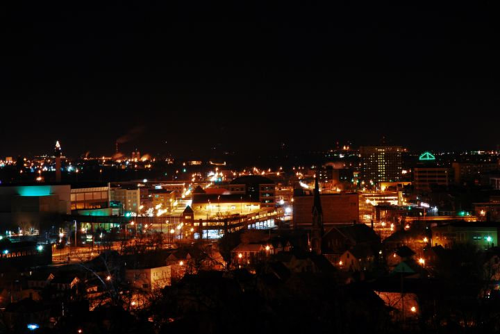 View of the city of Moline, Illinois by night